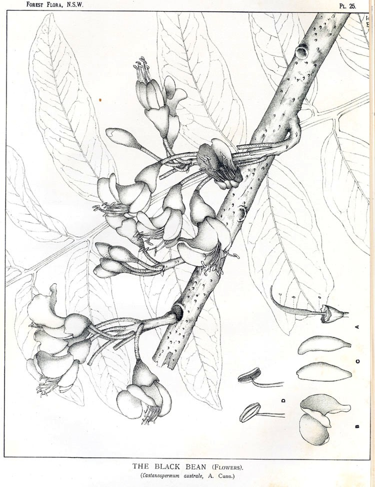 Black Bean, Castanospermum australe A. Cunn., Flowers, Plate 25 from Forest Flora of New South Wales by by Joseph Henry Maiden (1859–1925)